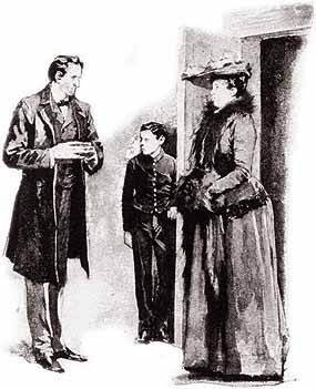 Sherlock Holmes in "A Case of Identity", which appeared in The Strand Magazine in September, 1891. Original caption was "SHERLOCK HOLMES WELCOMED HER."